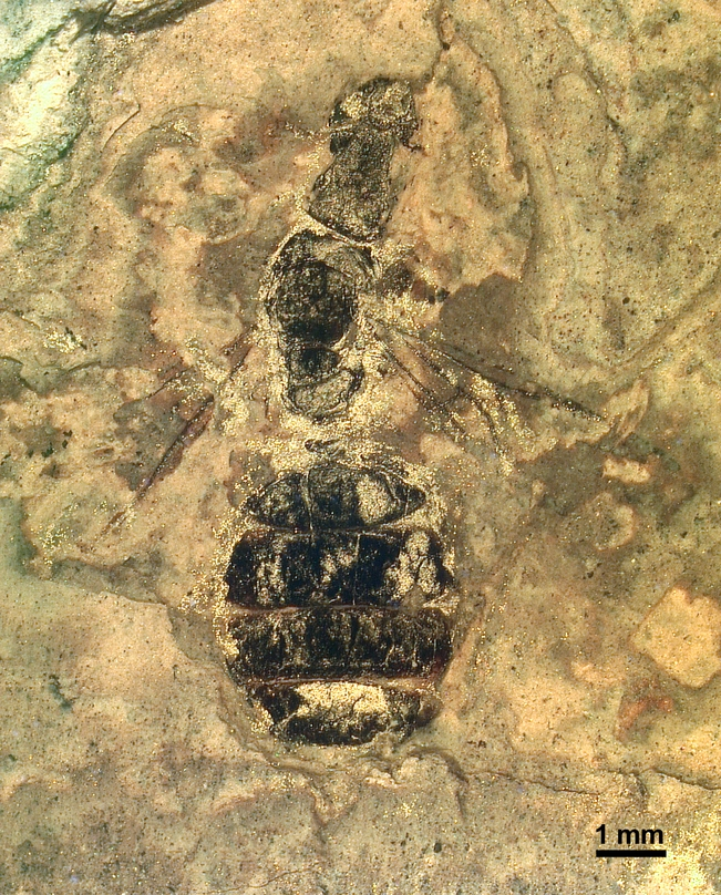 Dorsal view of the Gesomyrmex germanicus holotype, specimen SMFMEI10999